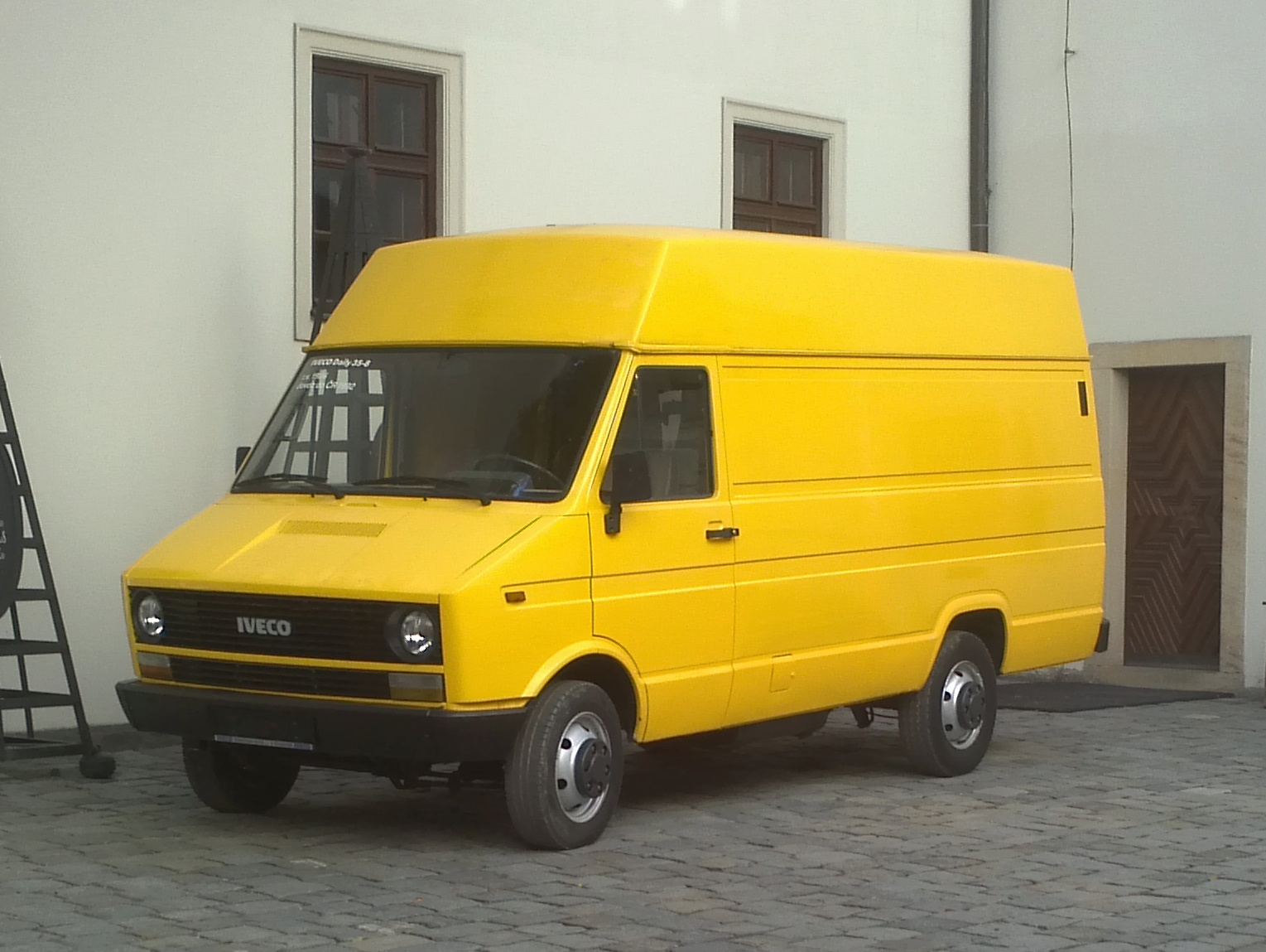 Iveco Daily 35-8 van, made in 1989, sold to Czechoslovakia in 1992.